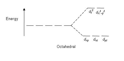 Octahedral CFT splitting